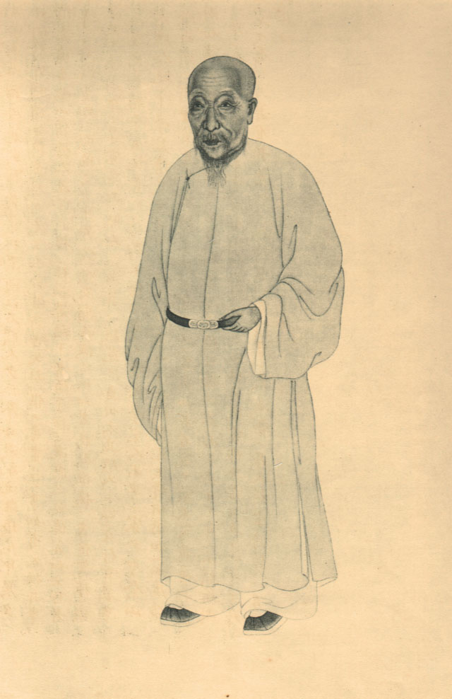 Wang Shimin